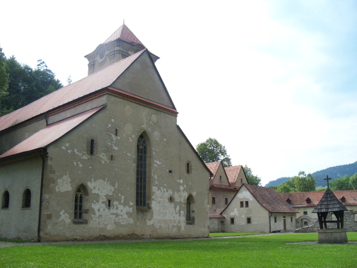 Červený Kláštor (Red Monastery). Solvakia